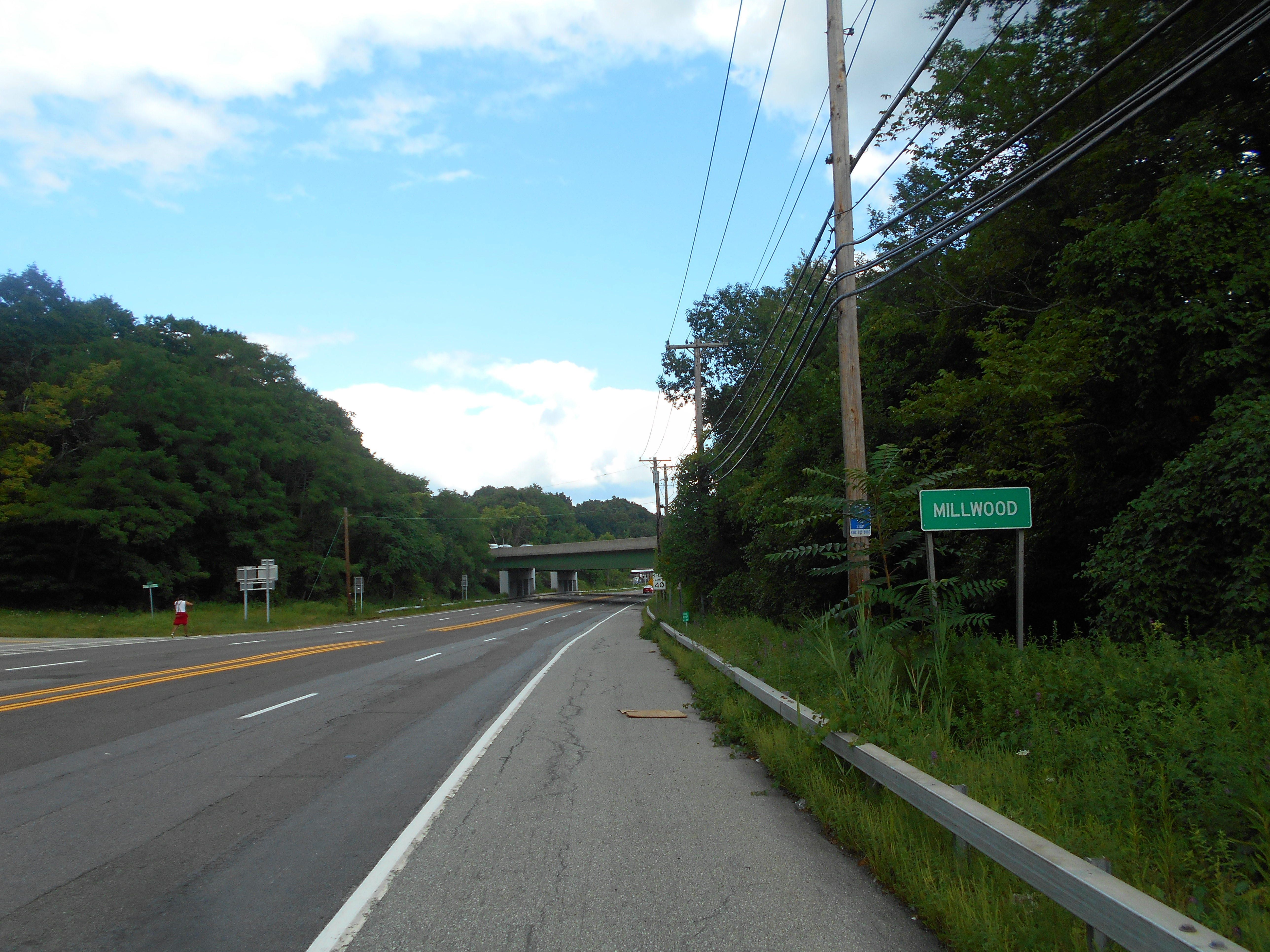 Entering the Hamlet of Milwood, New York on New York State Route 100.